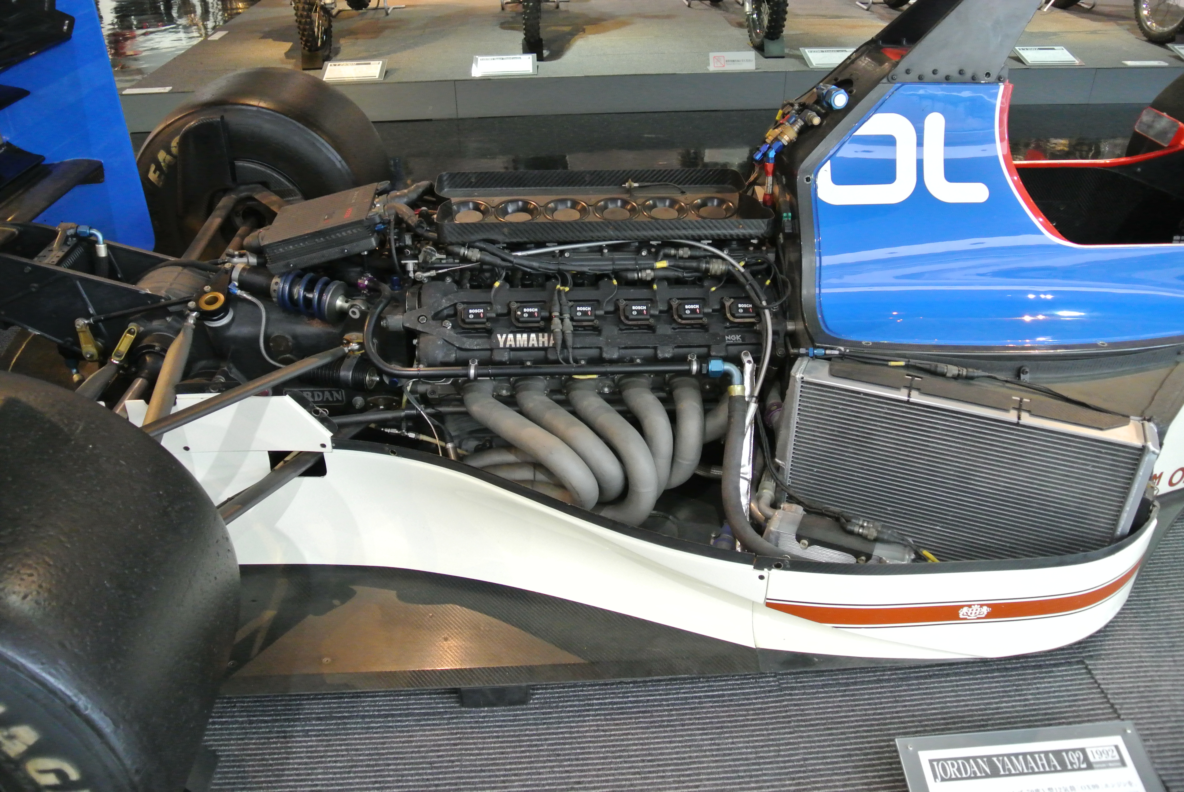 1992 Jordan Yamaha 192 OX99 engine